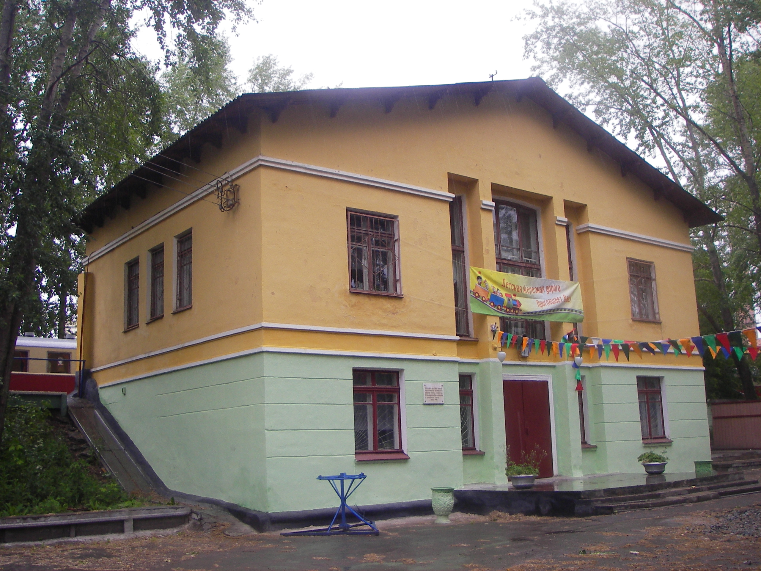 Main station of junior railroad in Yekaterinburg, Russia